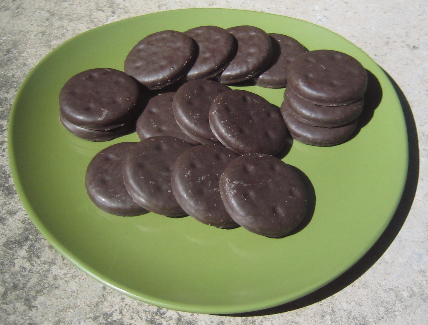 Girl Scout Thin Mint cookies